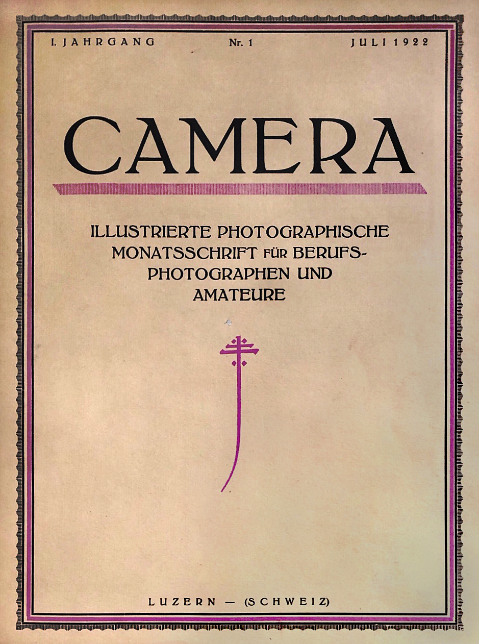 Cover of the 1st issue of 'Camera' magazine, July 1922